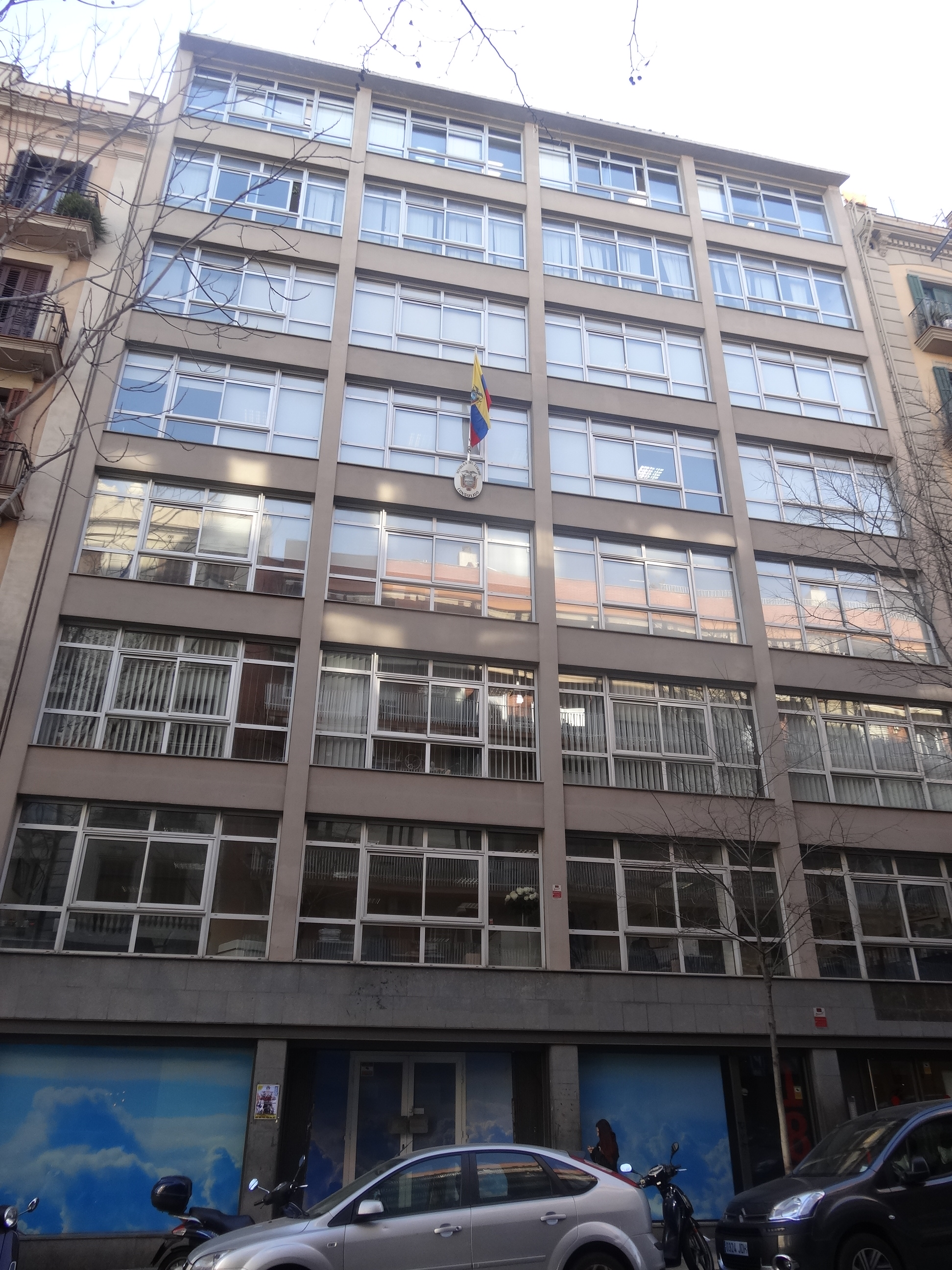 Edifici carrer Nàpols, 187, Barcelona. Acull el Consolat d'Equador, entre altres.